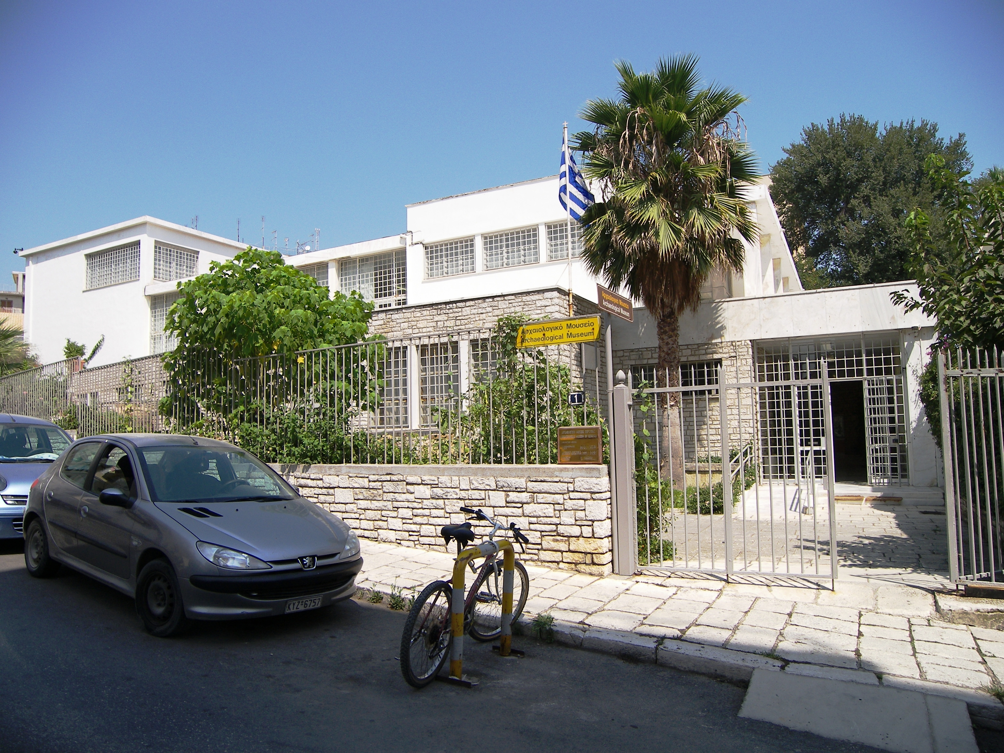 Please se filename